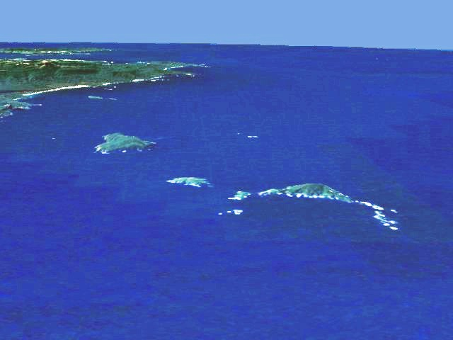 Aerial view of the southern coast of Tasmania. In the background South East Cape, in the foreground the Maatsuyker Islands (Needle Rocks are on the right; just to the left of them is Maatsuyker Island; De Witt is the larger island on the left). Artificial view generated from satellite data.